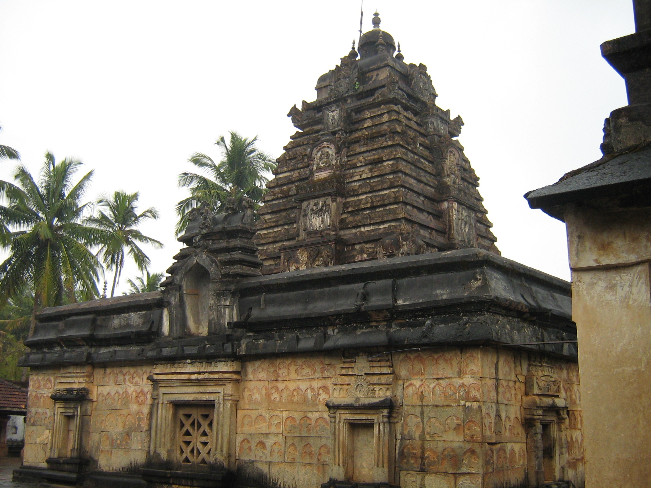 Madhukesvara templeಕನ್ನಡ: ಮಧುಕೇಶ್ವರ ಗುಡಿ, ಬನವಾಸಿ